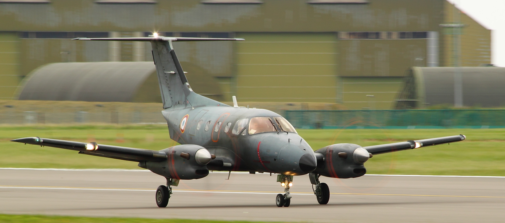 A French Air Force Embraer EMB-121 Xingu taking off on Air Base 702 Avord